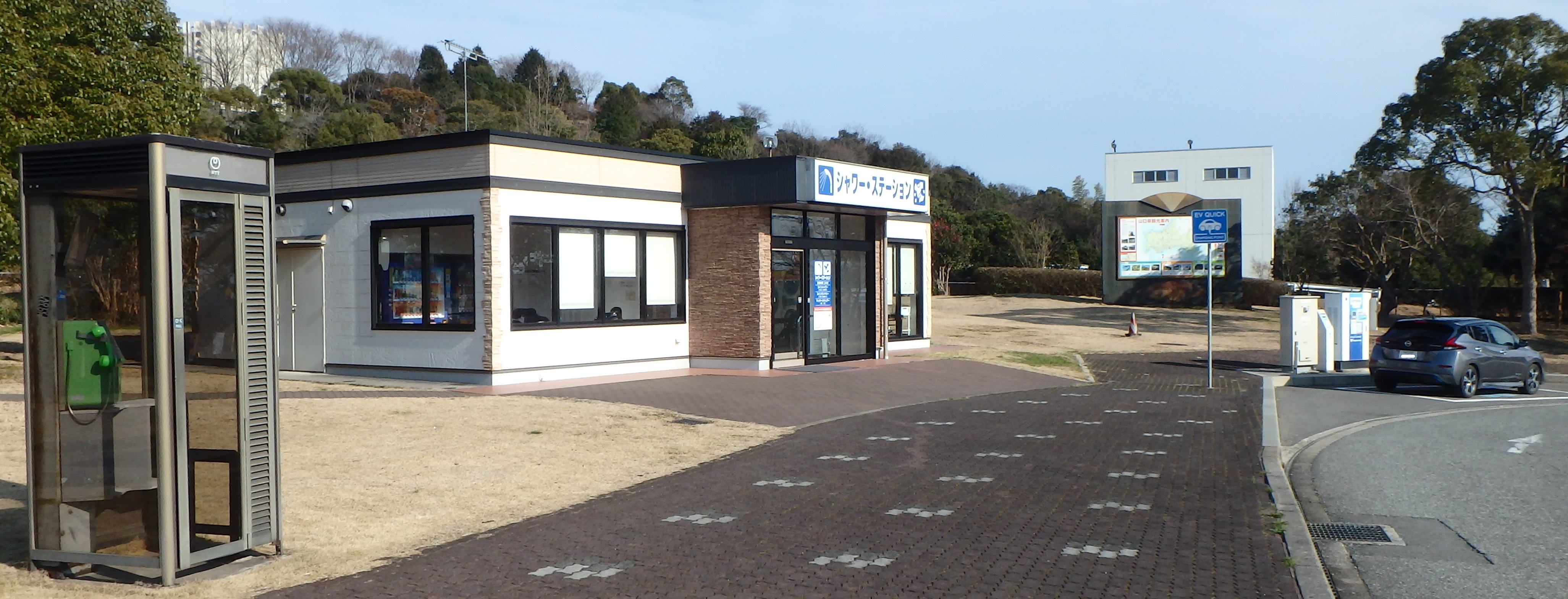 Shoewr Station in Sabagawa SA, Yamaguchi prefecture,Japan